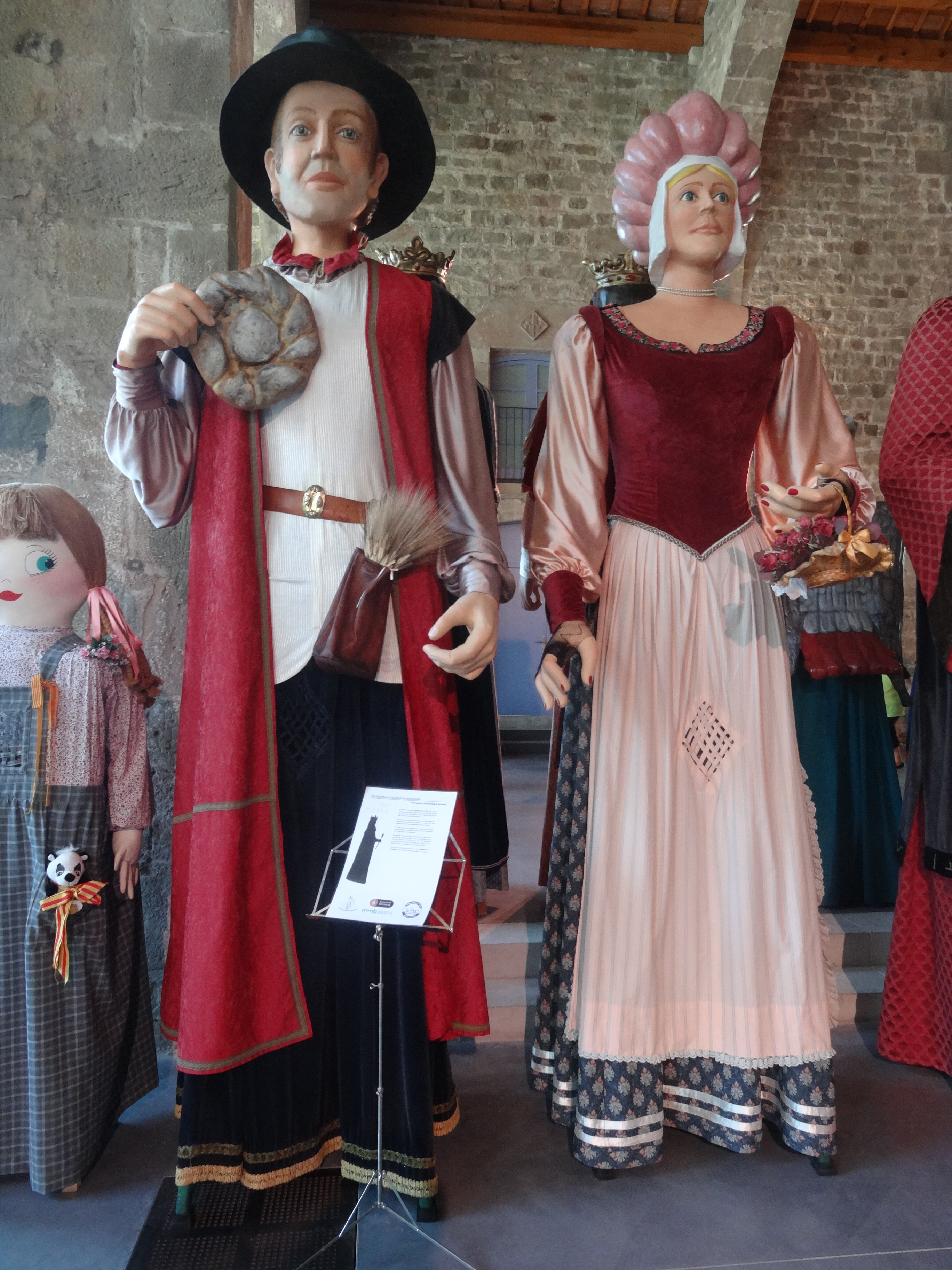 Exhibition of Giants at the Museu Marítim, Barcelona, 2013.